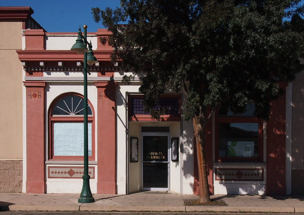 Gabilan Lodge No. 372-Independent Order of Odd Fellows (now the Gonzales Council Chambers), 117 4th St., Gonzales, California, USA. Viewed from the southeast.